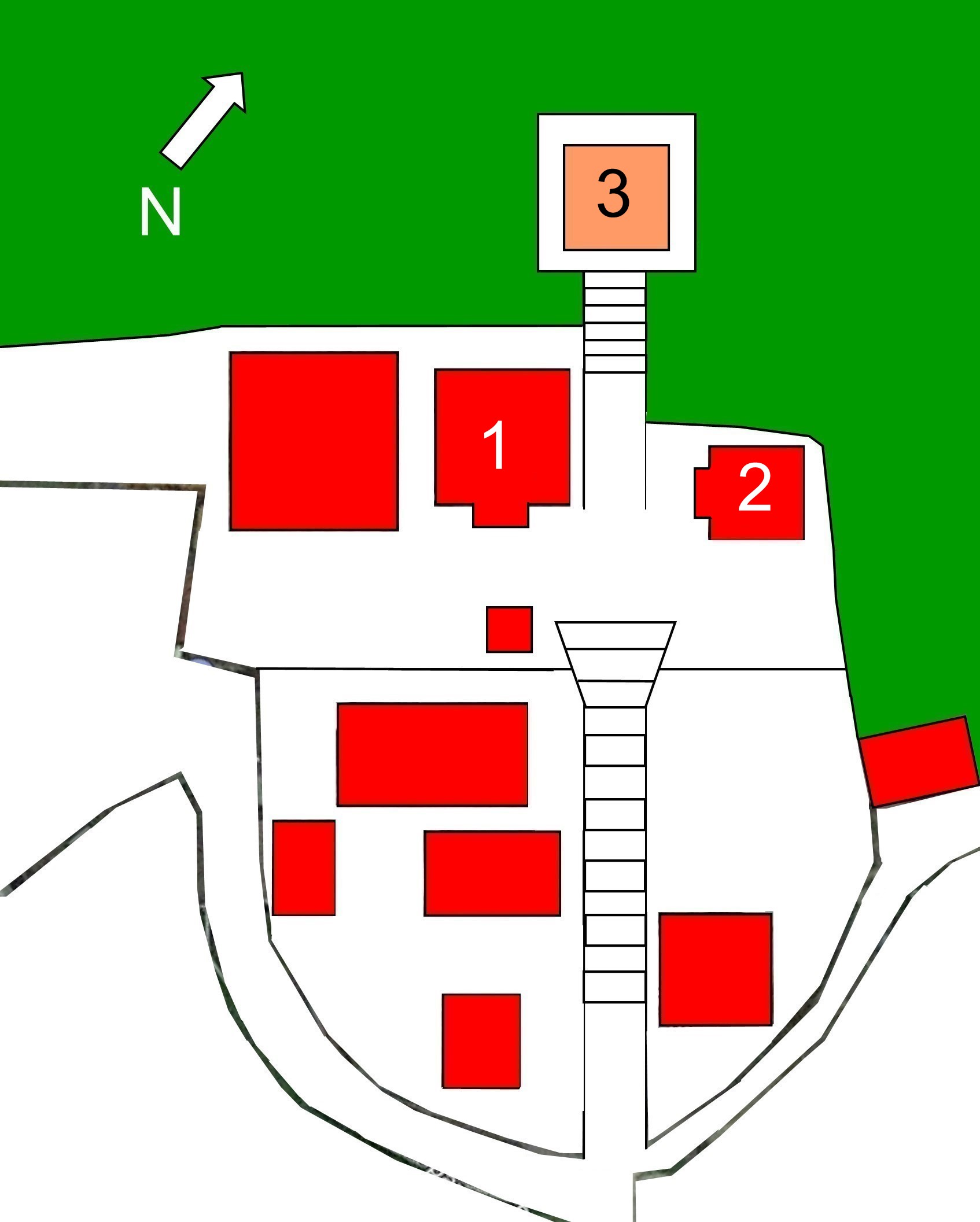 Layout of Ryûkô-ji Temple, Uwajima, Japan